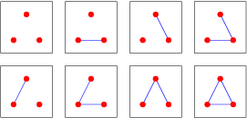 This file represents all simple graphs on three vertices.